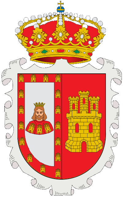 Province of Burgos Coat of arms (Oficial version)